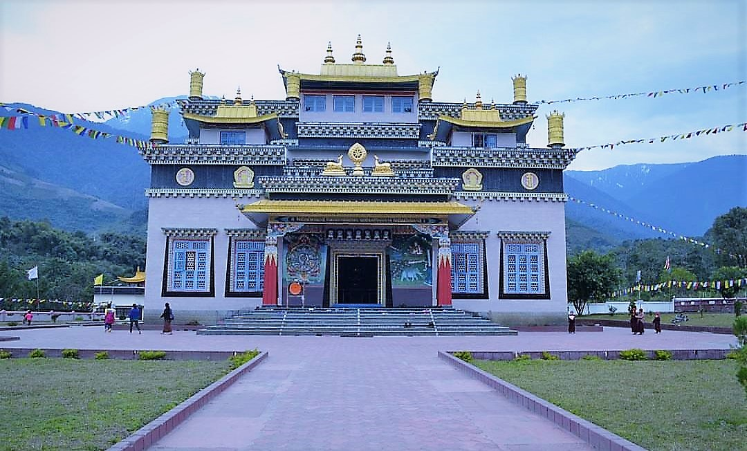 Vishal Manke 88